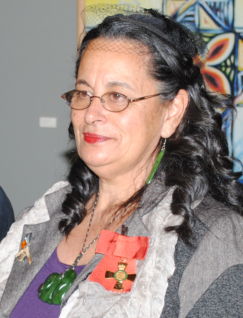 Cathy Dewes, after her investiture as ONZM, for services to Māori, at Government House, Auckland, on 28 July 2011.